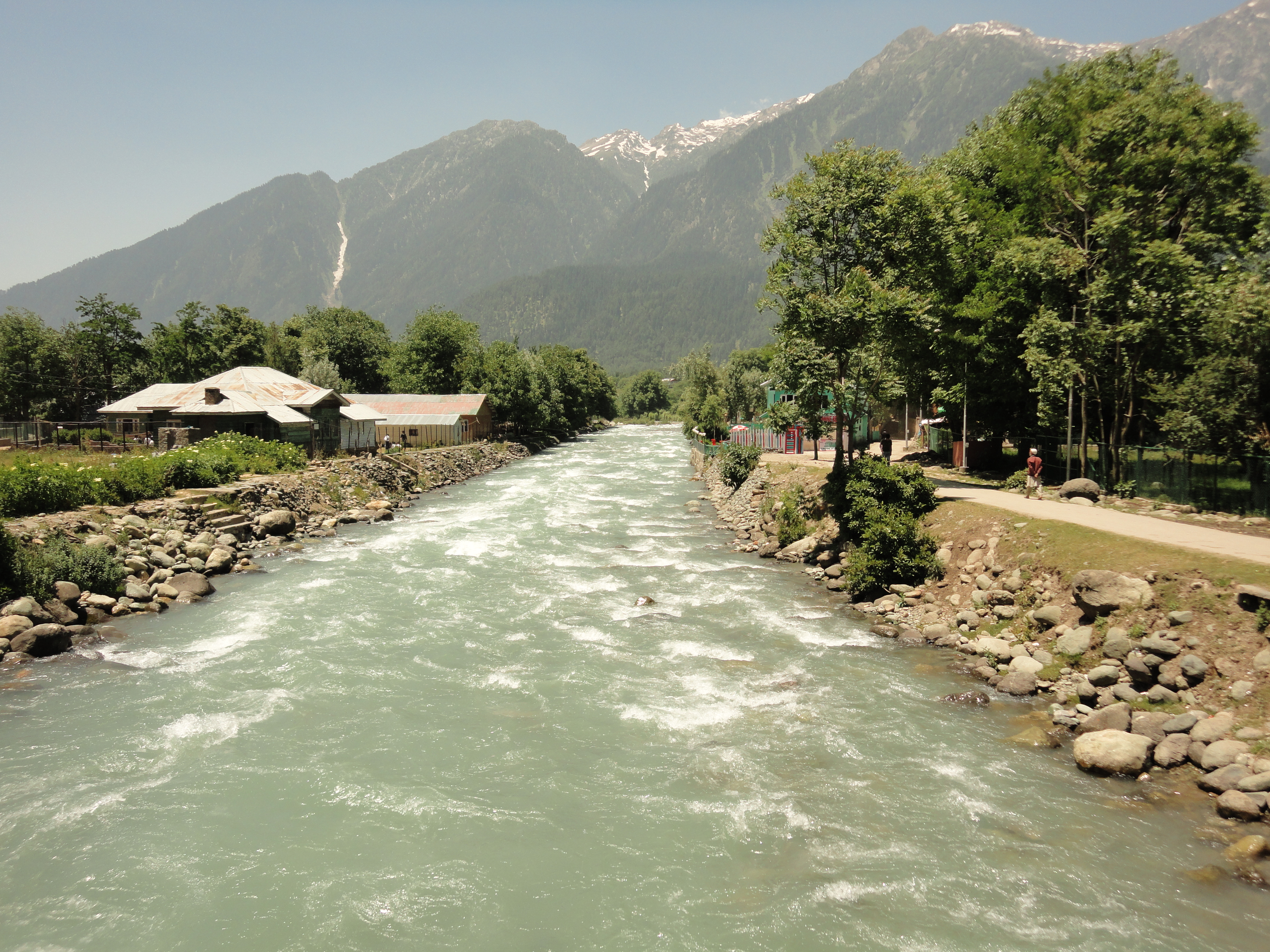 This is a picture of hill station Pahalgam showing Lidder River and valley of Pahalgam in the background.